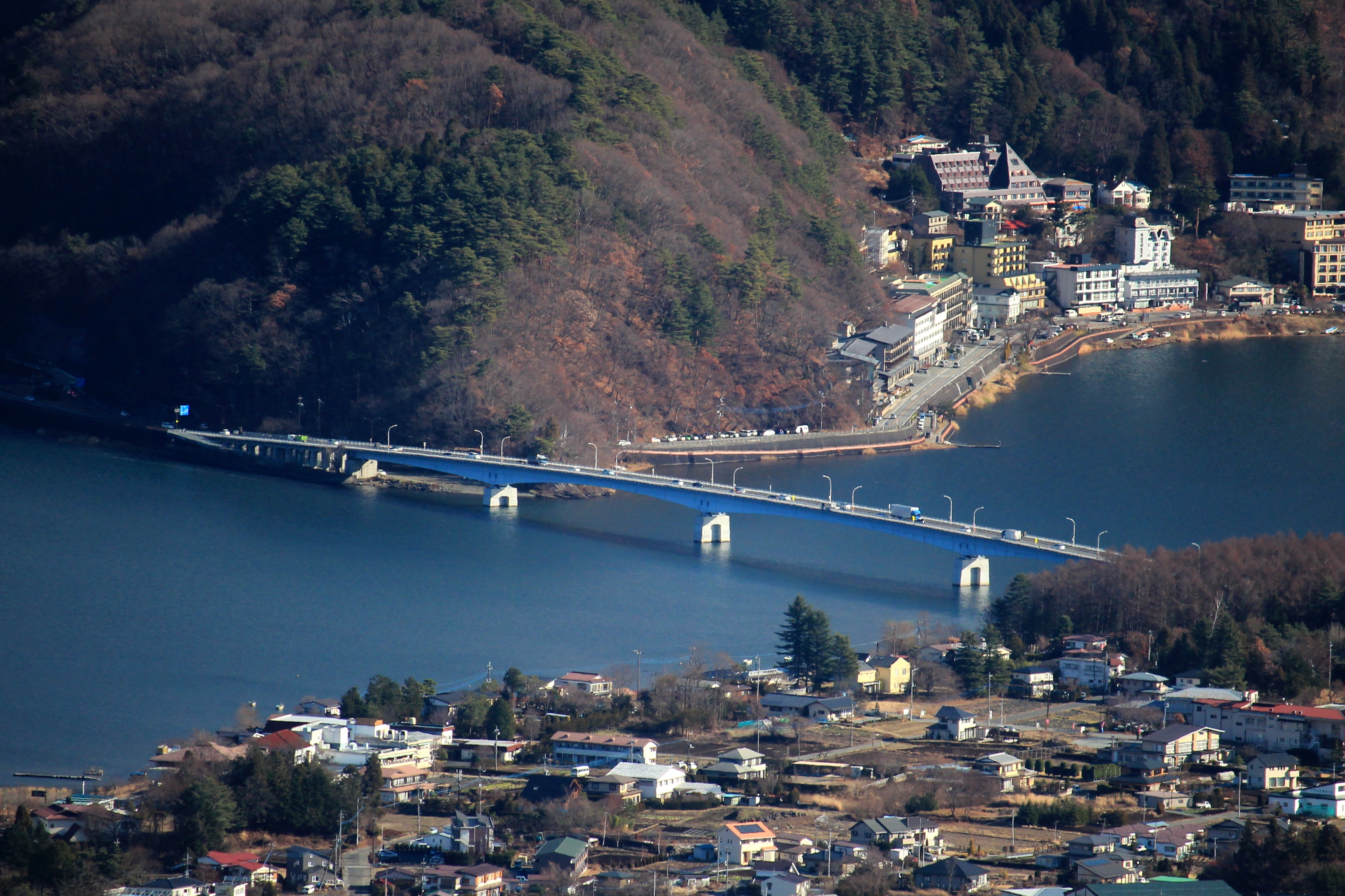 Kawaguchiko Bridge seen from Mount Ashiwada in Fujikawaguchiko, Yamanashi prefecture, Japan.